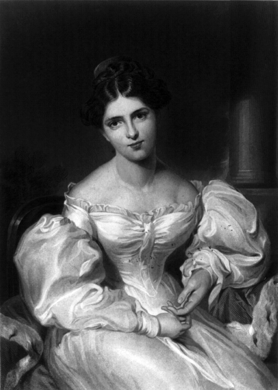 Fanny Kemble, British actress